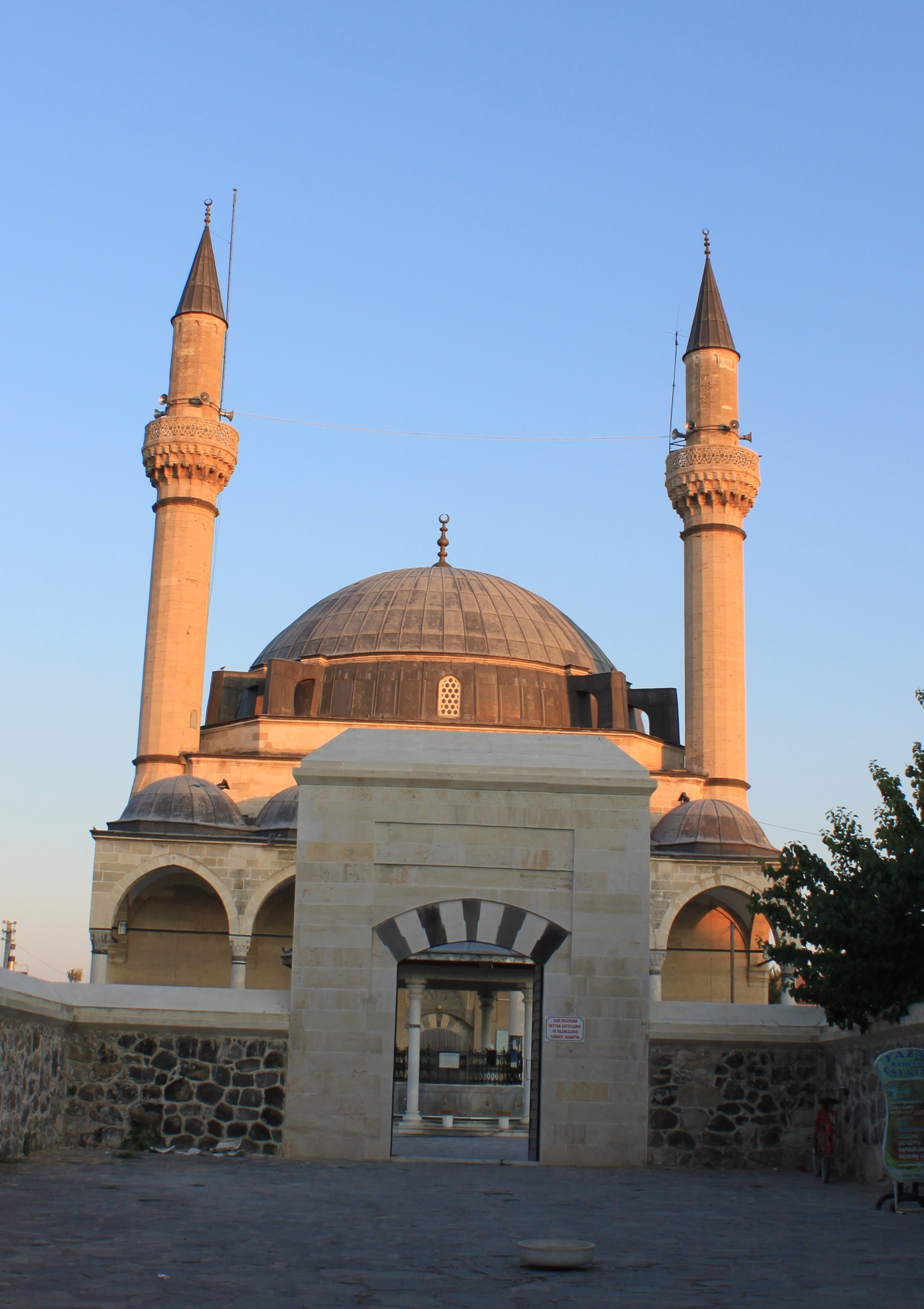 Karapınar; Selimiye Külliyesi; Sultan Selim Mosque of 1563Afrikaans: Karapınar; Selimiye Külliyesi; Sultan Selim Moskee van 1563